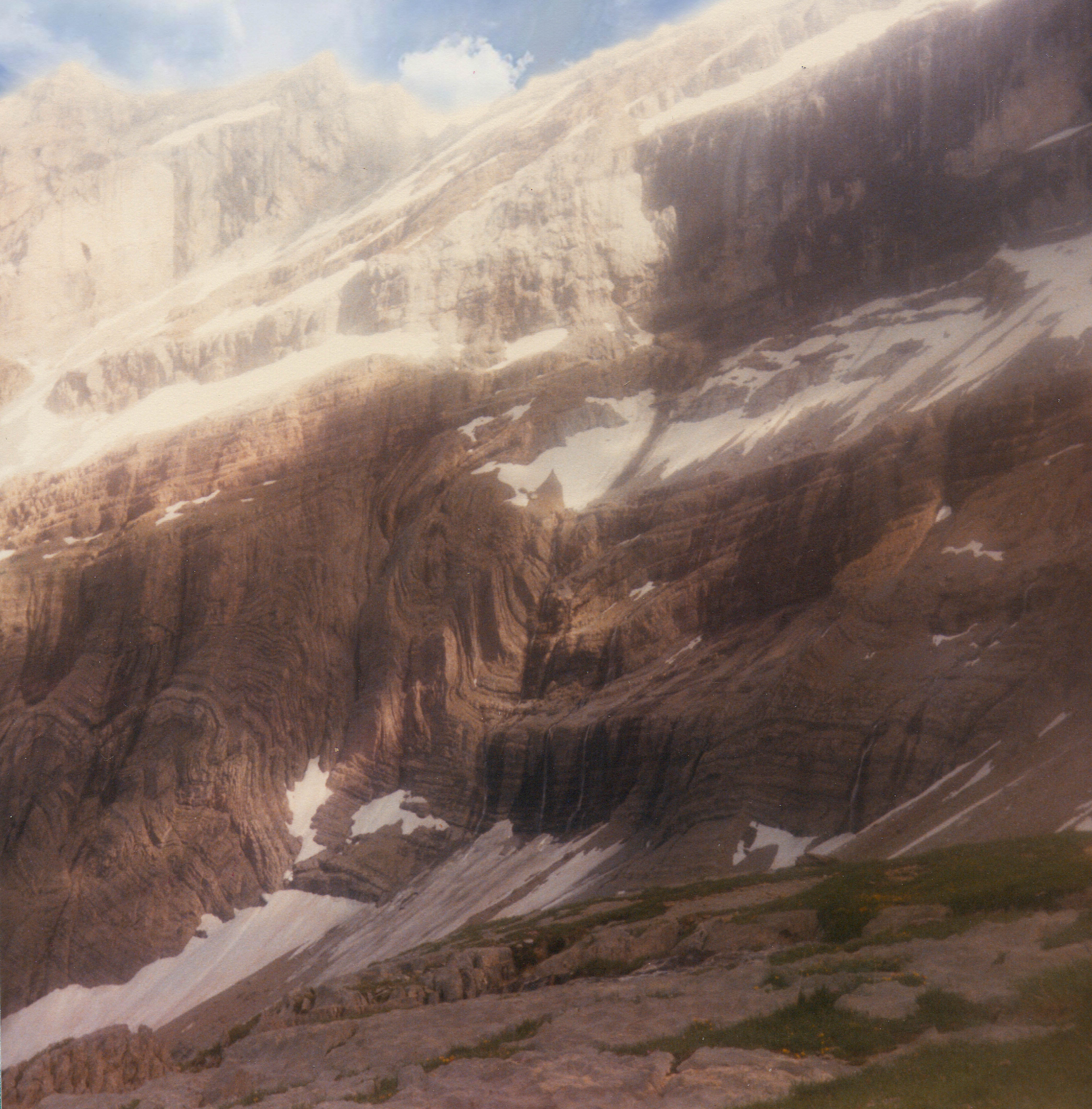 Limestone folds, "Brèche de Roland", Pyrénées (France)